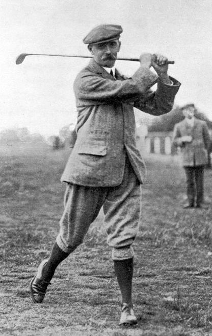 English amateur golfer John Ball Junior